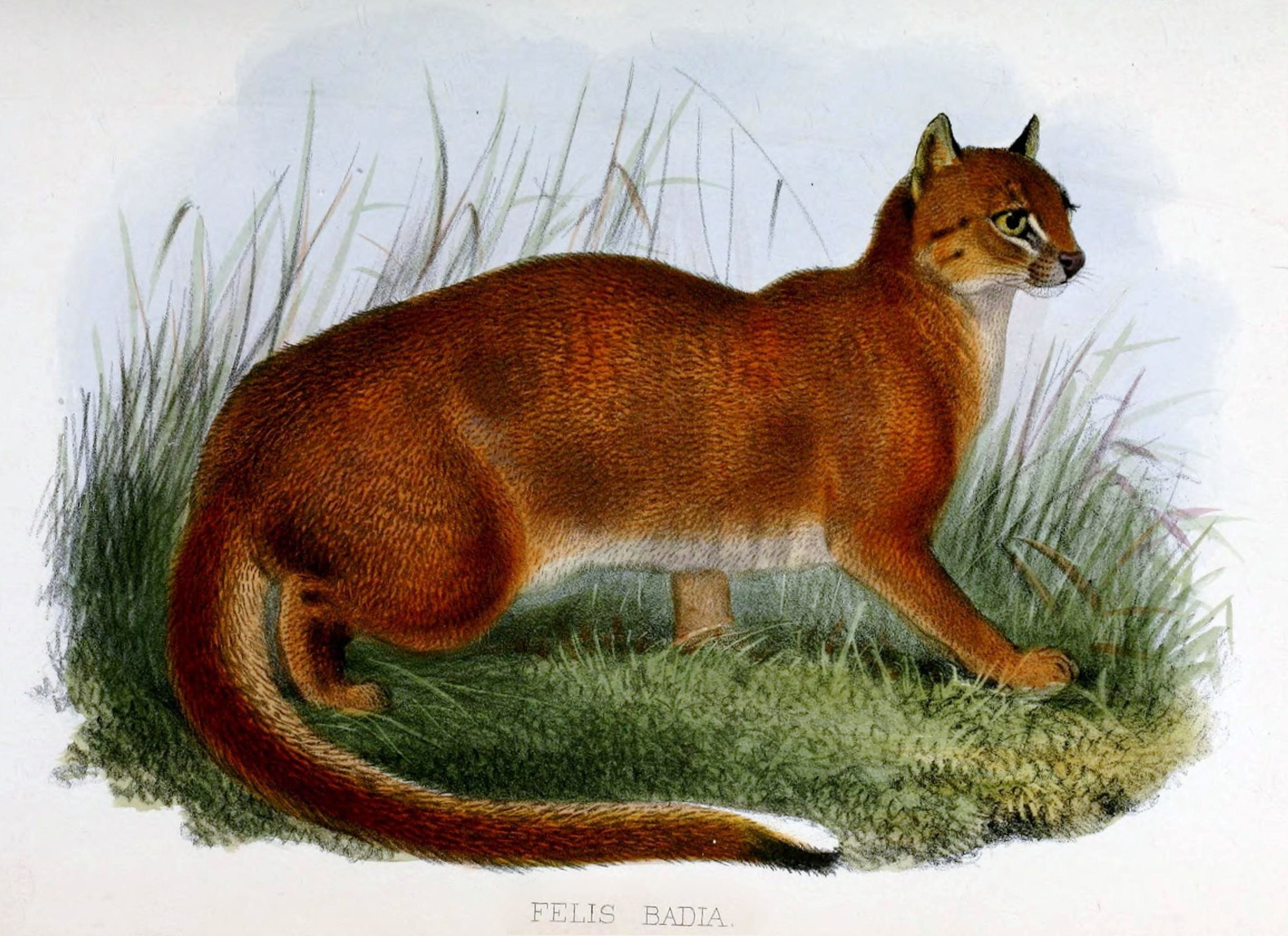 Bay Cat (Pardofelis badia)